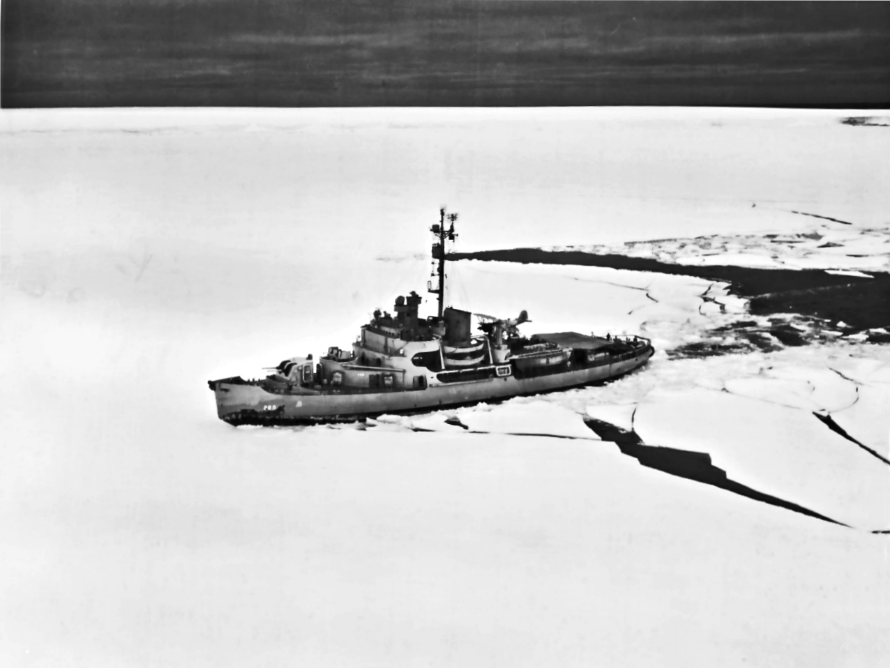 The U.S. Coast Guard icebreaker USCGC Northwind (WAG-282) makes her way through the ice in the Antarctic during "Operation Highjump".